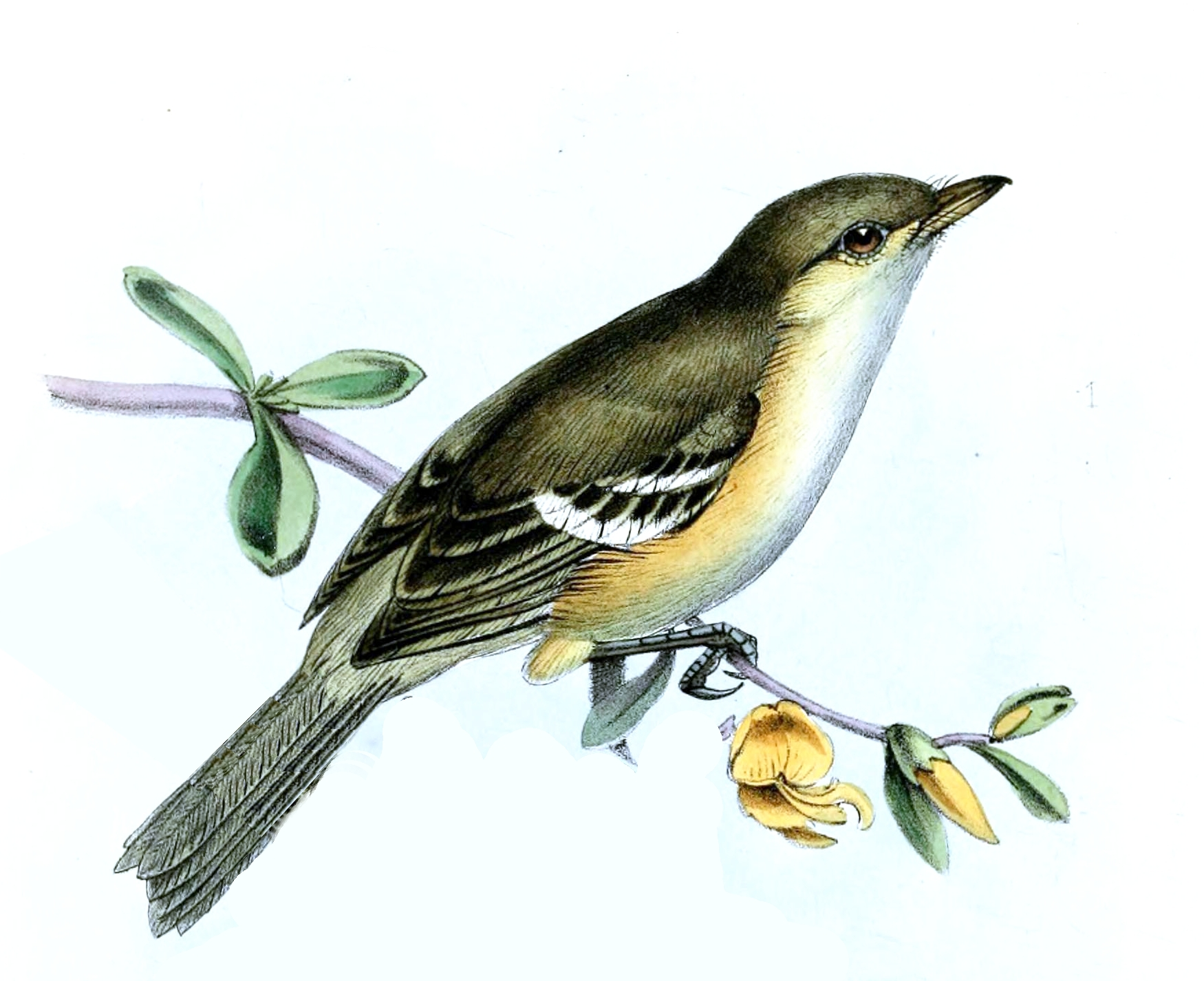 Jamaican Vireo (above)